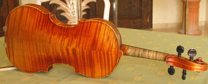 ViolinCopy of a Guarneri violin by Jean Baptiste Vuillaume from 1863. (backside)